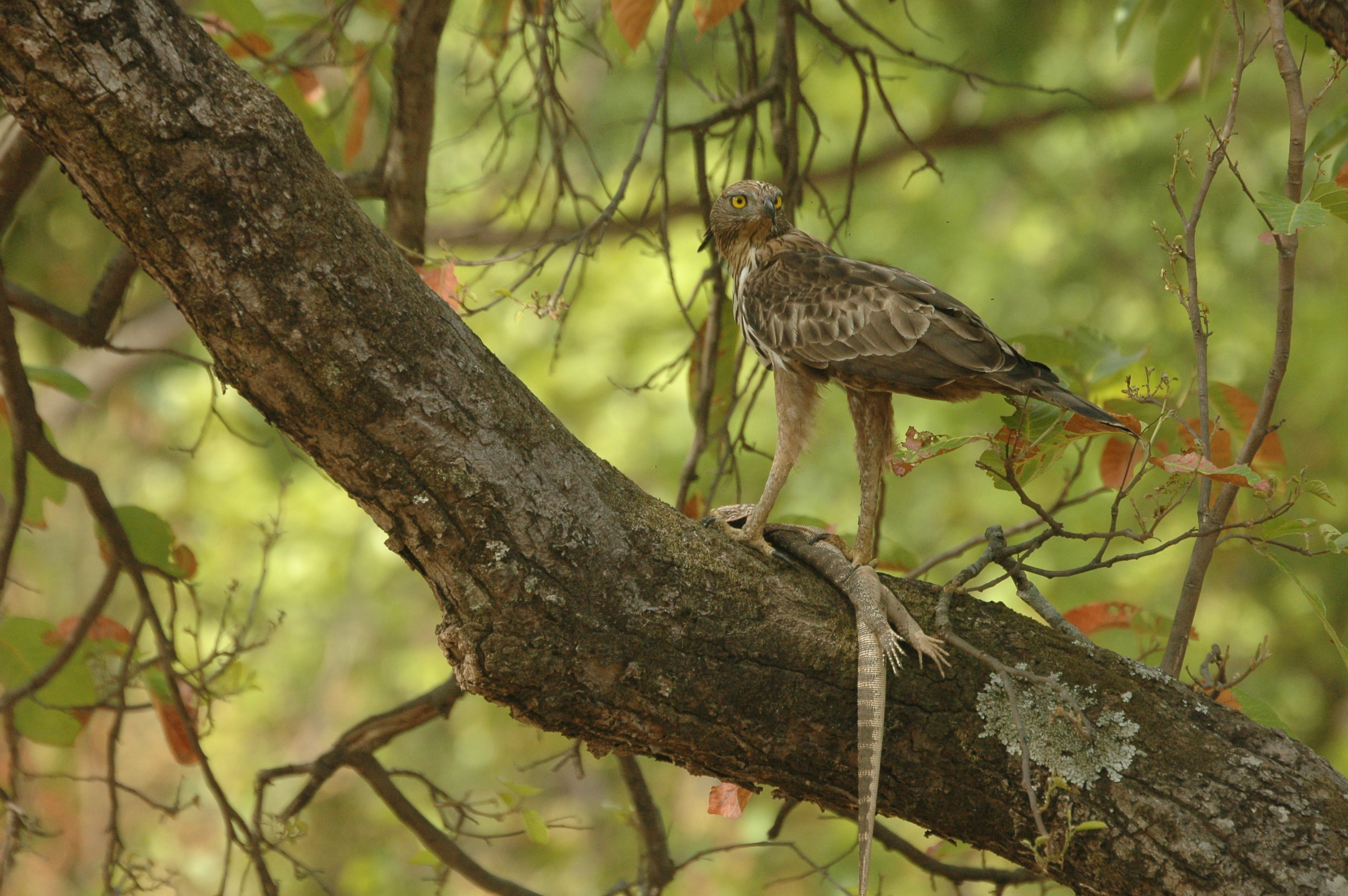 Hawks at the Nagzira national park, Maharashtra.